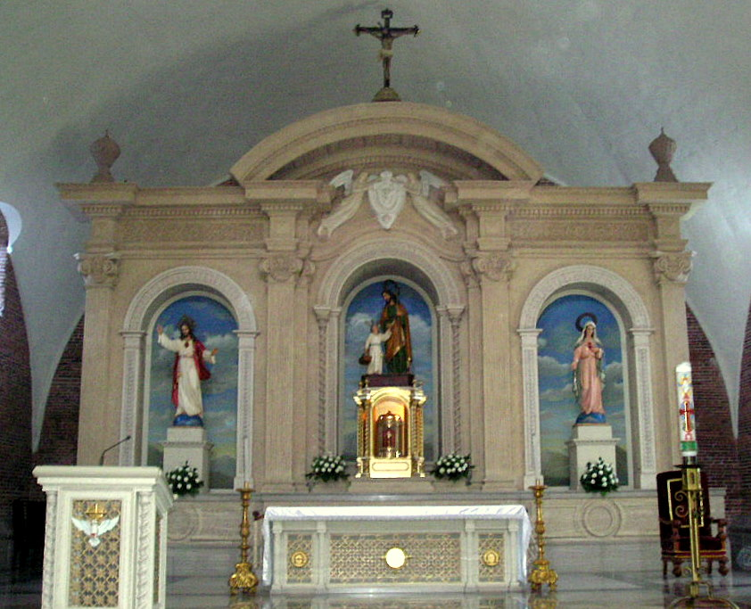 Balanga Cathedral. Main altar